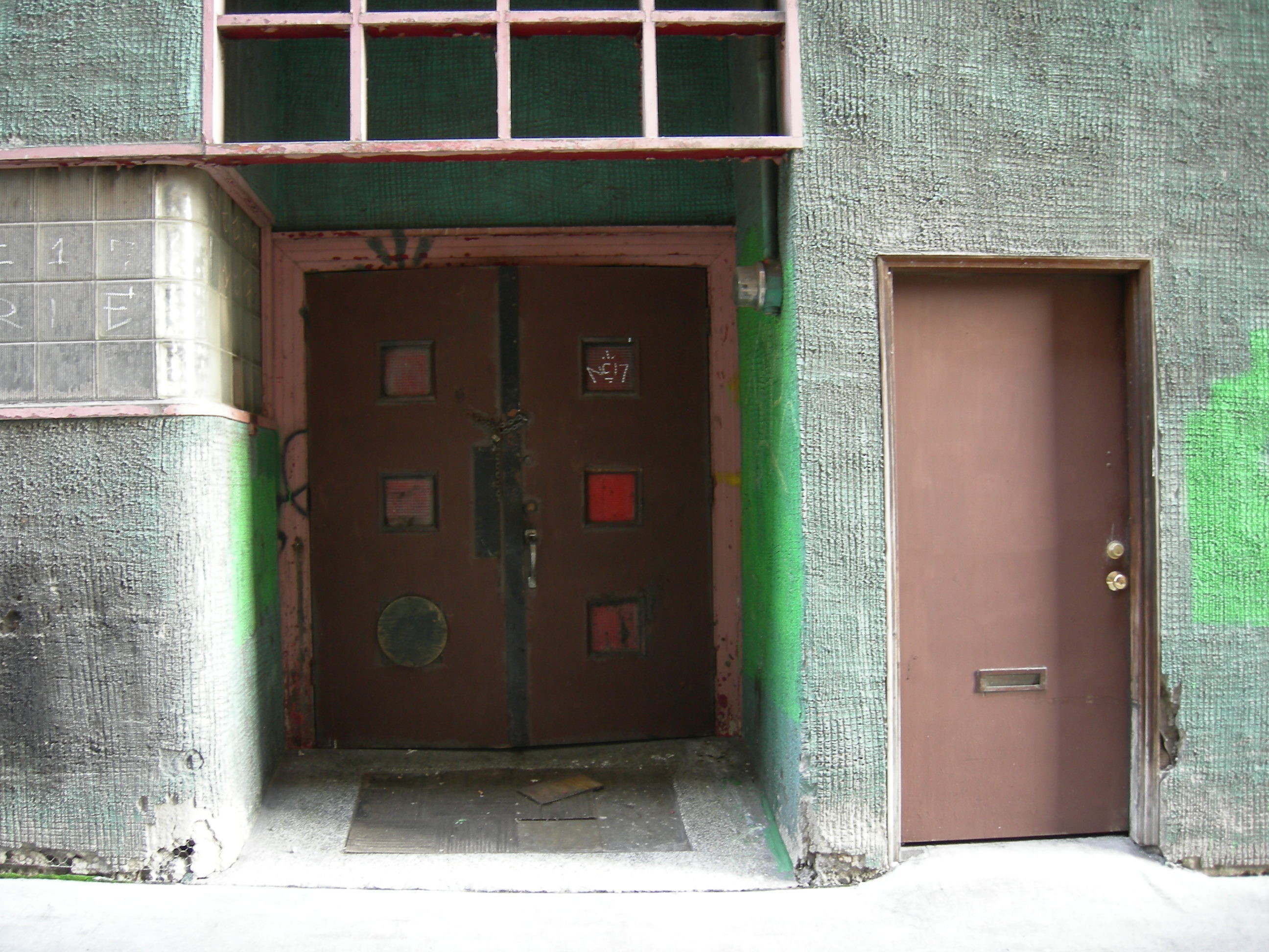 The entrance to the former Wah Mee Club, where the Wah Mee massacre occurred. Maynard Alley, International District, Seattle, Washington.